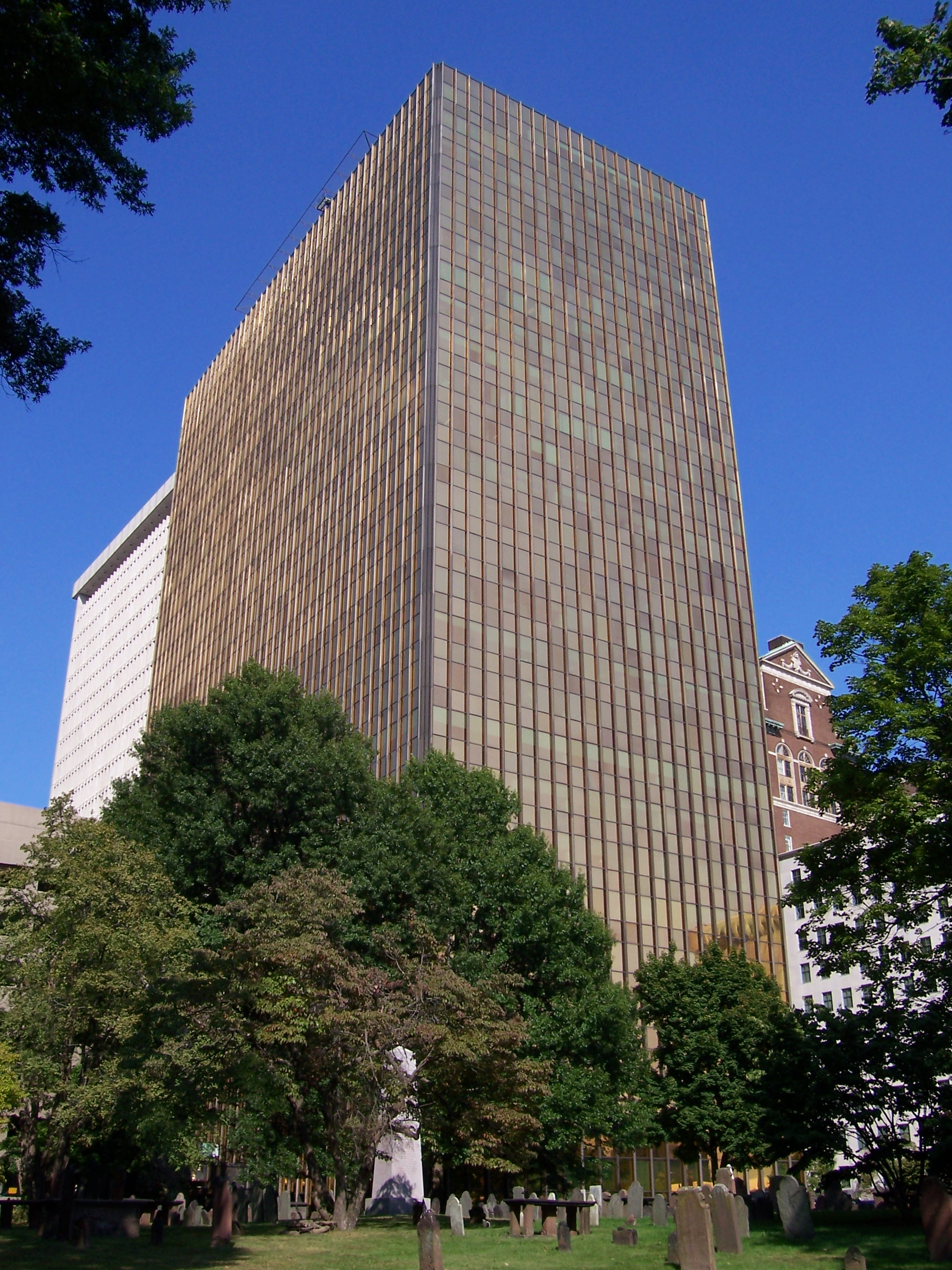 United Technologies Corporation headquarters in Hartford, Connecticut